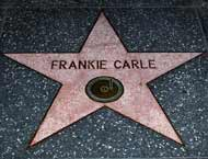 Frankie Carle Hollywood Star